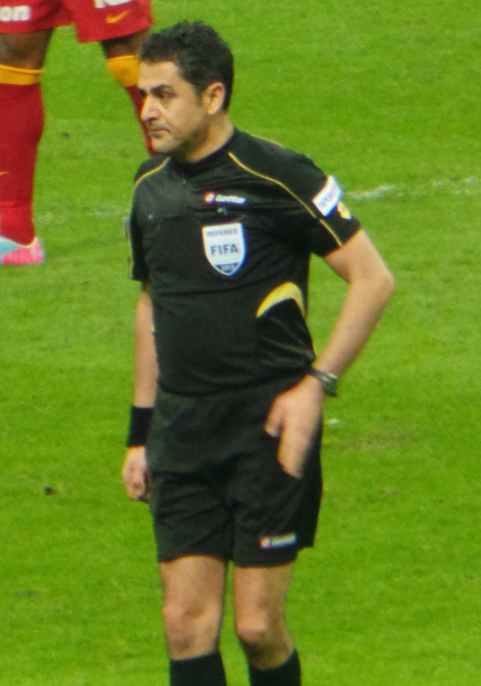 Galatasaray - SB Elaziğ